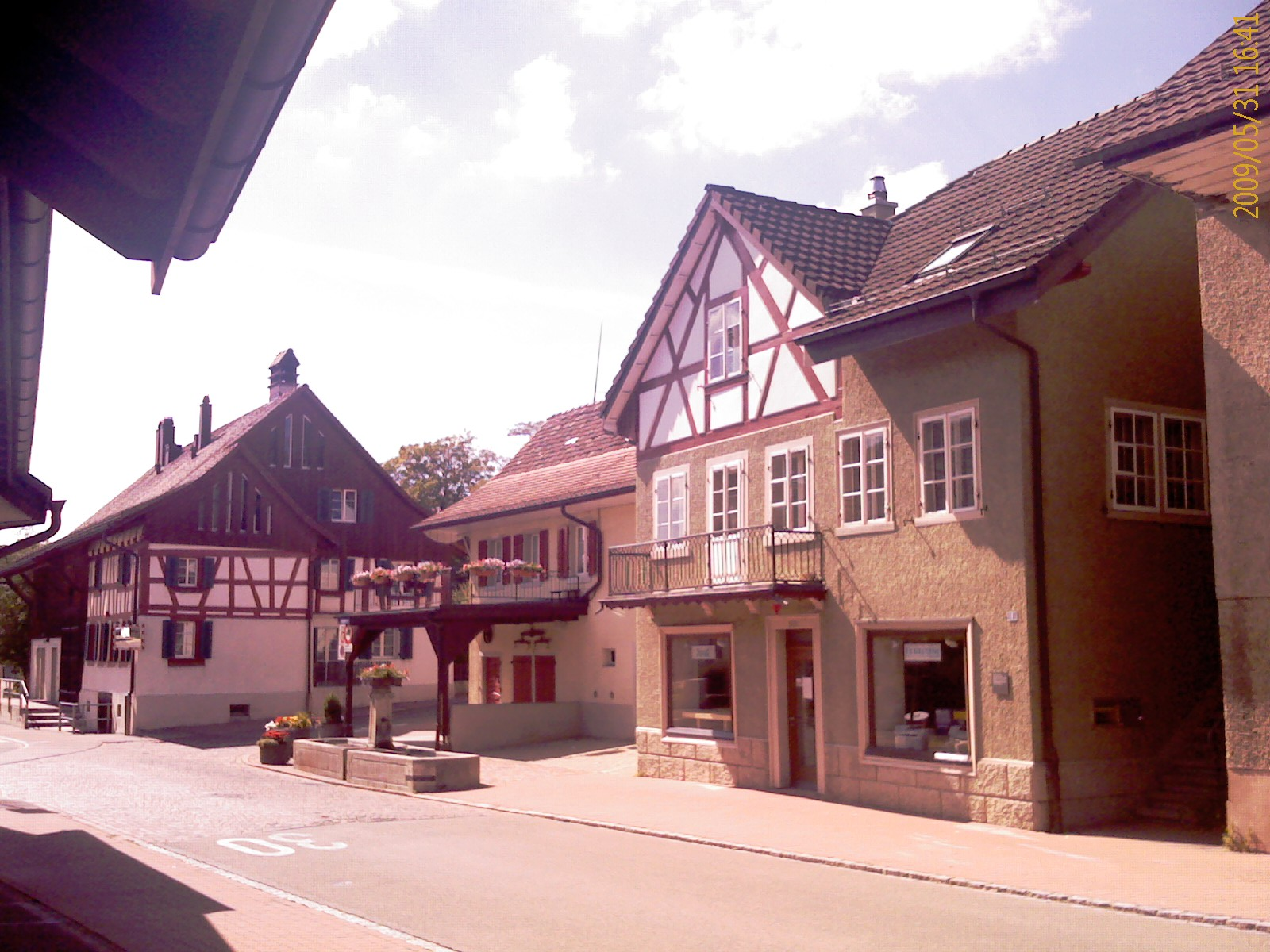 Village center of Buchs, canton of Zürich, SwitzerlandEsperanto: Vilaĝocentro de Buchs, Kantono Zuriko, Svislando